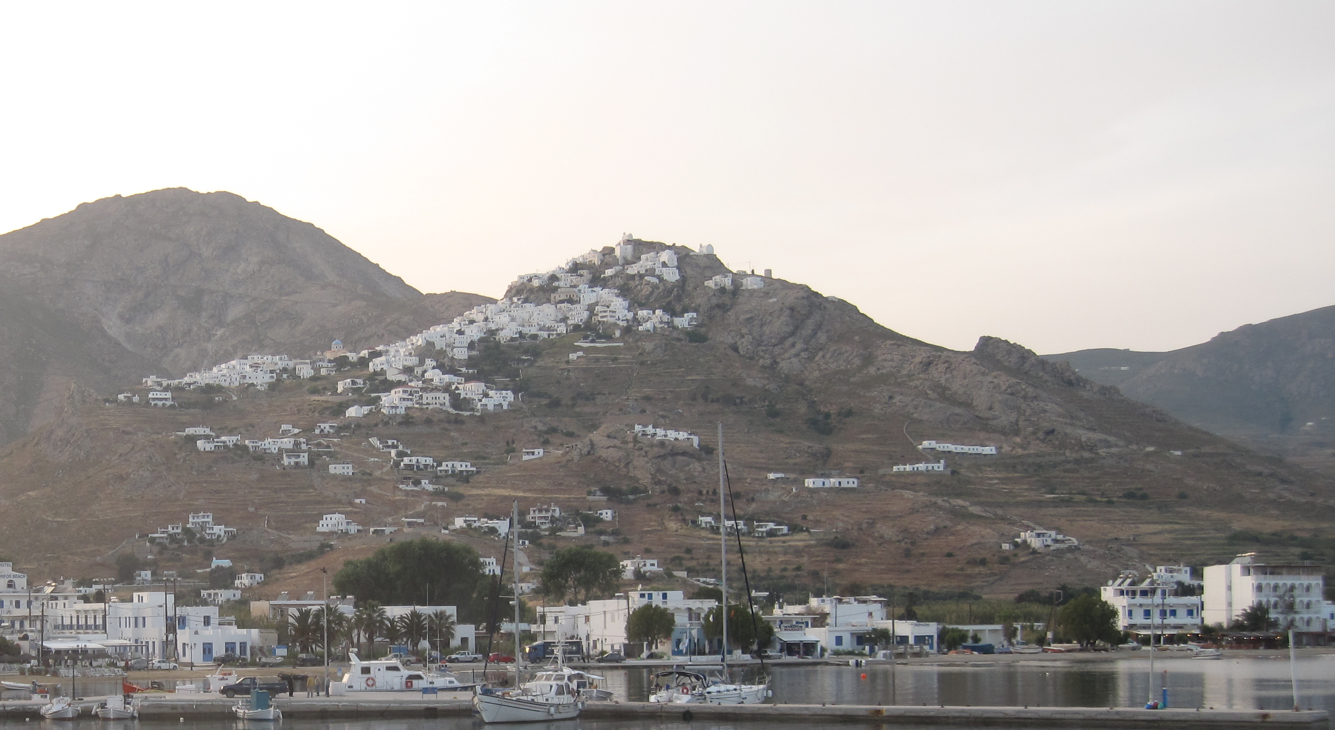 View of Serifos